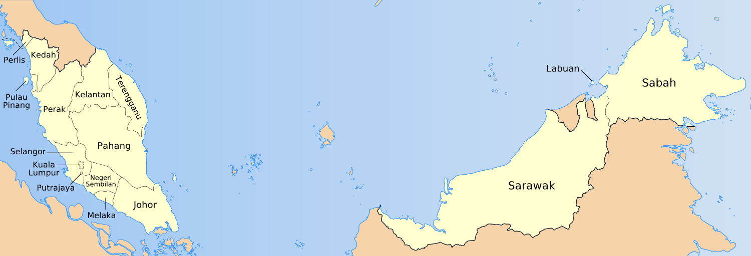 Map of the states of Malaysia, named in local terms.